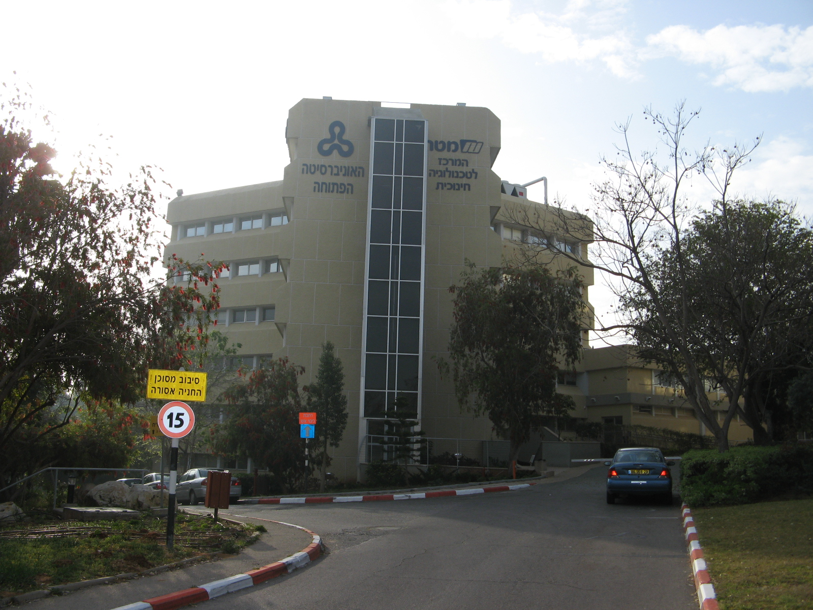 Klauzner open university building from the side